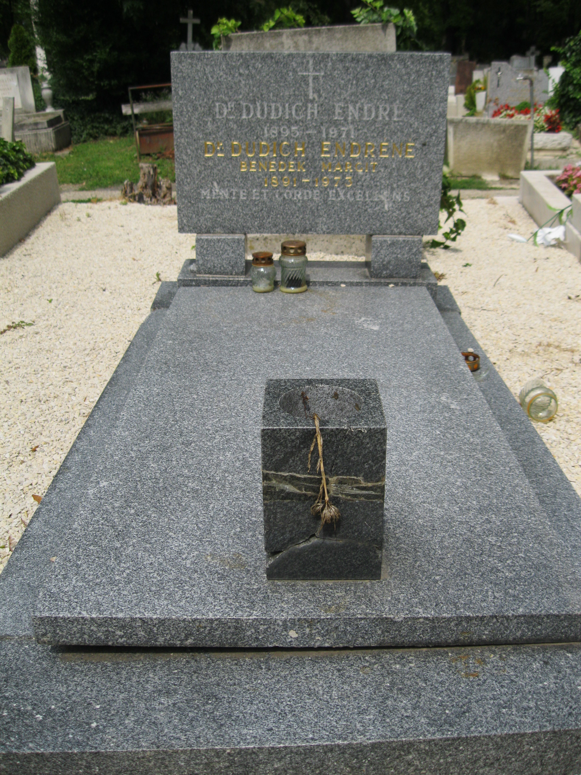 Tomb of the zoologist Endre Dudich in Farkasréti Cemetery [6/1-1-36]